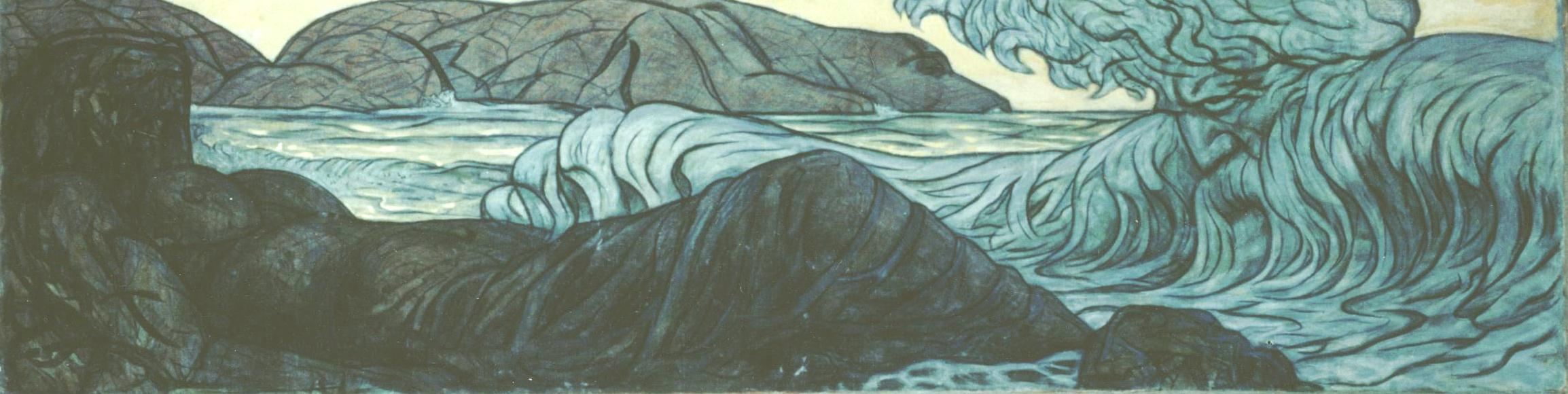 Wave.